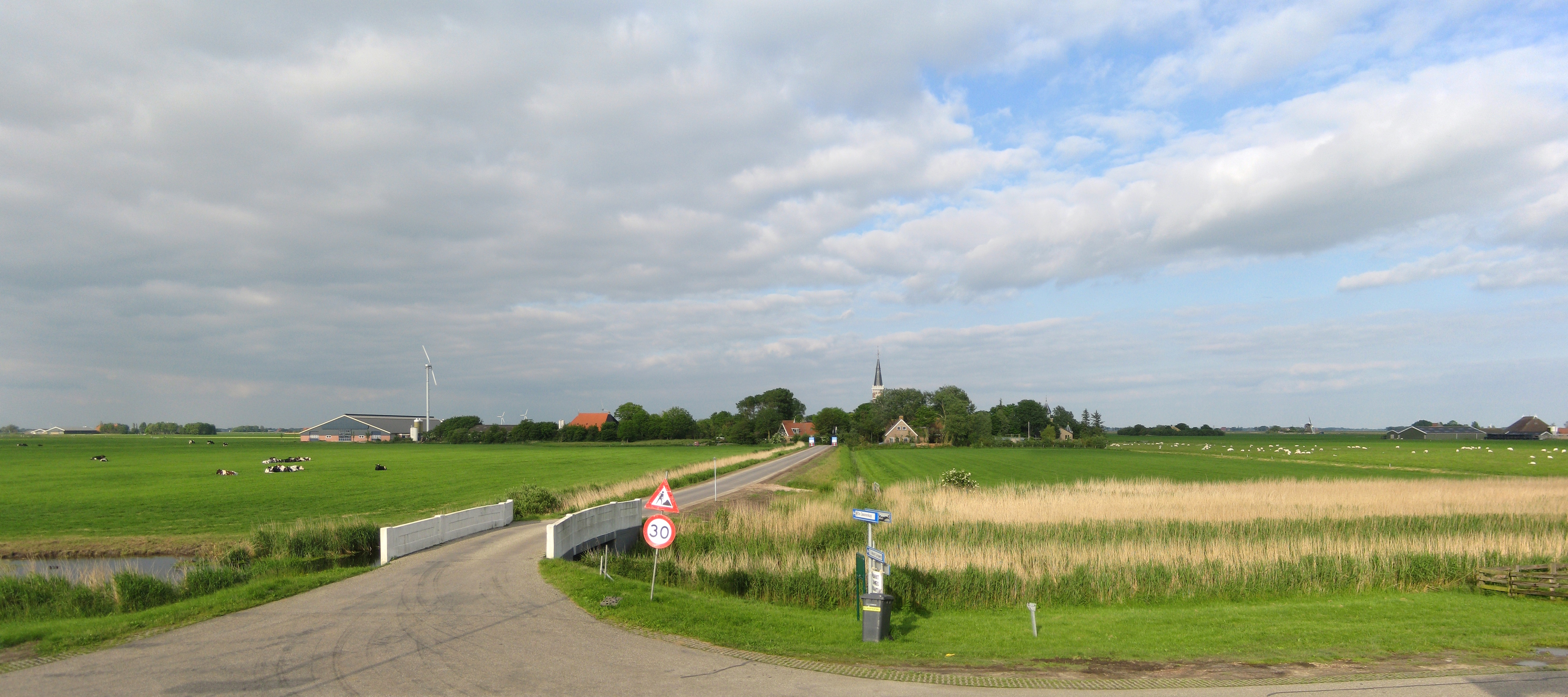 Cornwerd (Frisian: Koarnwert), a village in the Dutch province of Fryslân.